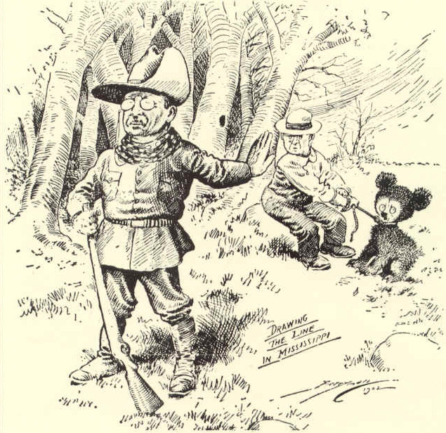 This political cartoon by Clifford Berryman's depicts President Theodore Roosevelt's bear hunting trip to Mississippi. The cartoon gave the 'Teddy' Bear it's name. It was published in the Washington Post in 1902.